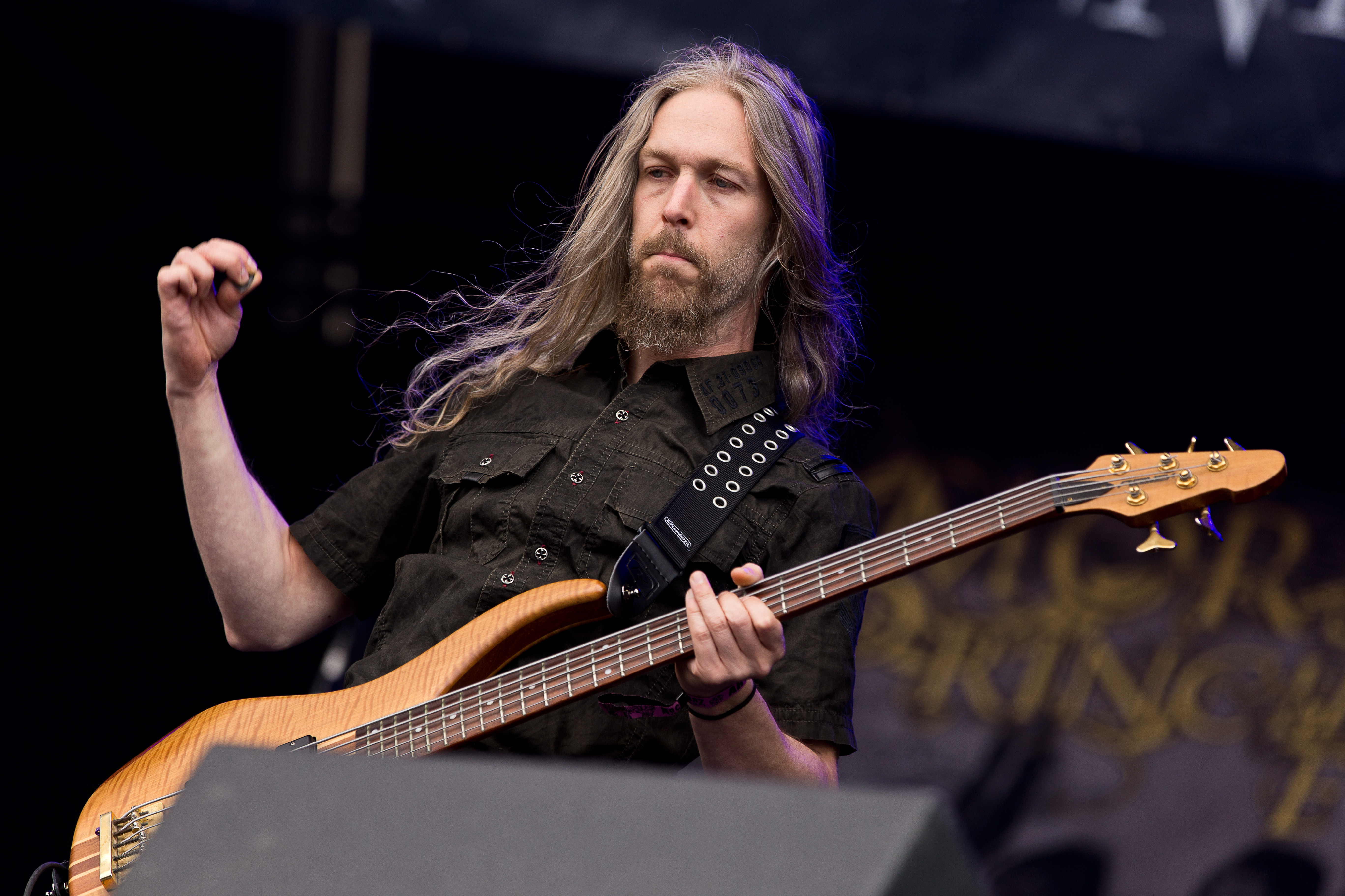 The Finnish melodic death metal band Mors Principium Est at the Rockharz Open Air 2016 in Ballenstedt/Germany.